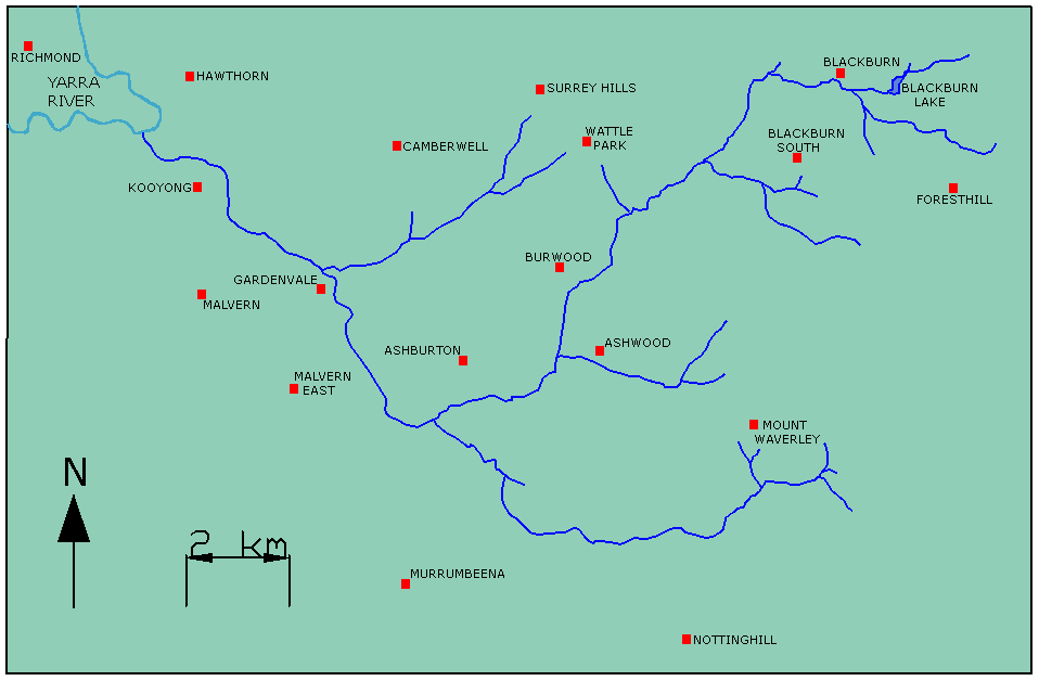 Map of Gardiners Creek, Melbourne. The map contains a minor suburb name error, Gardenvale (a bayside suburb) should be Gardiner